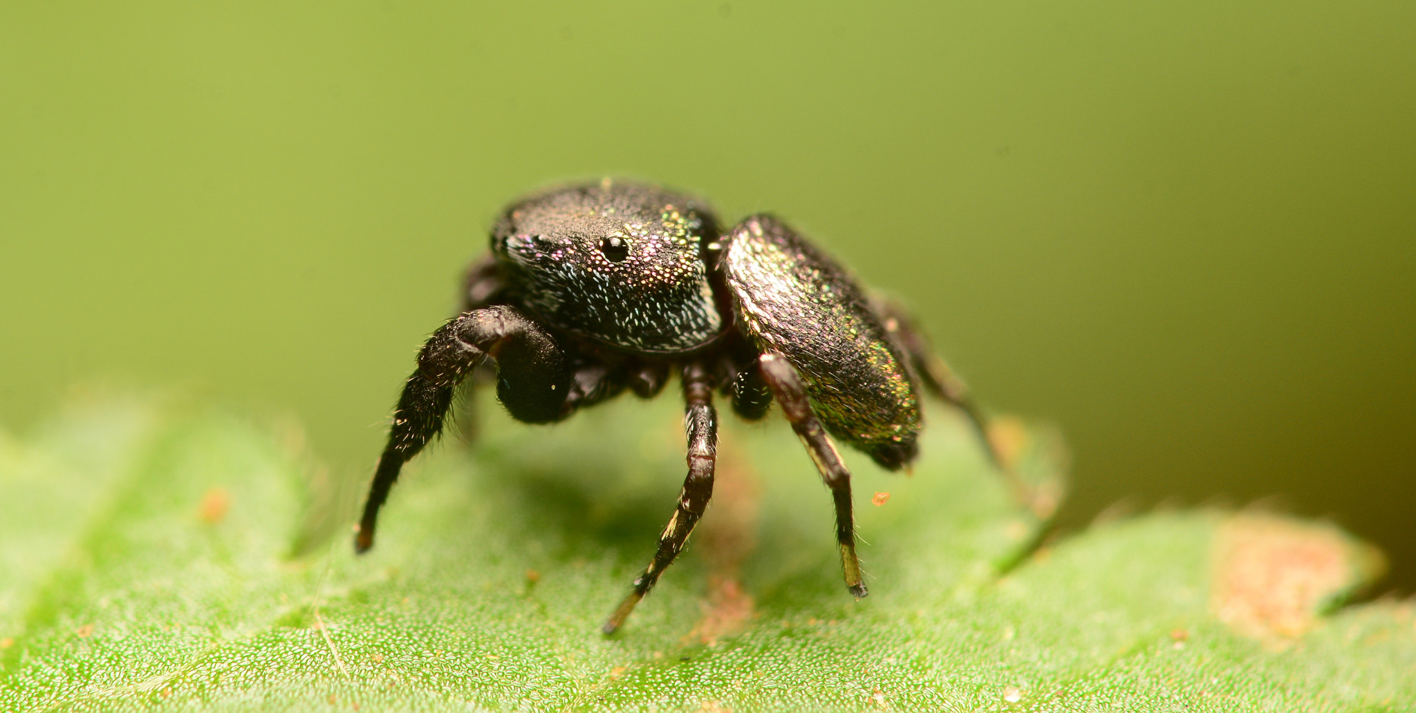 Adult male Sassacus cyaneus side